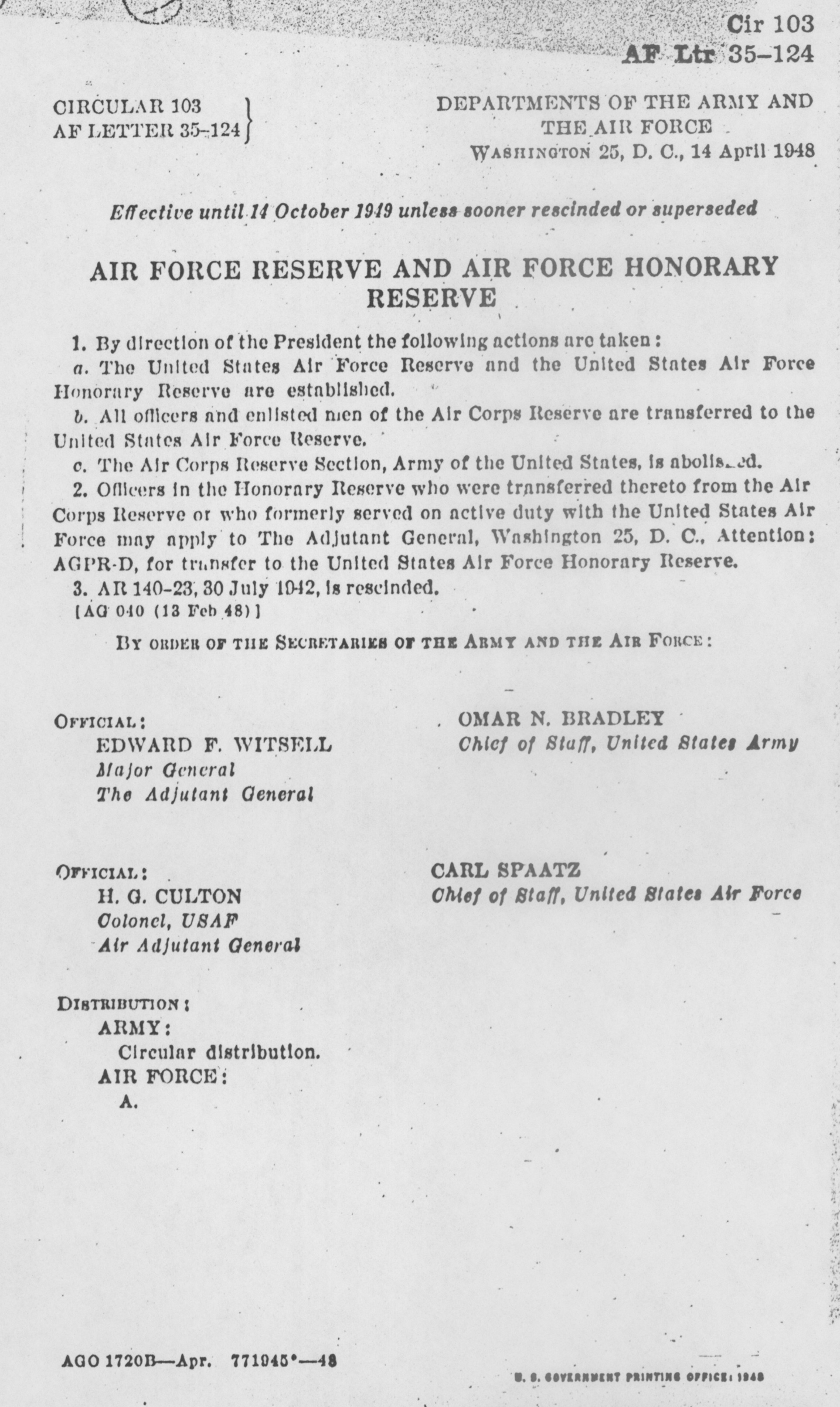 A scan of the document ordering the establishment of the United States Air Force Reserve Command.